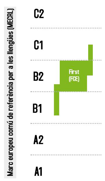 Comparison between the exam Cambridge